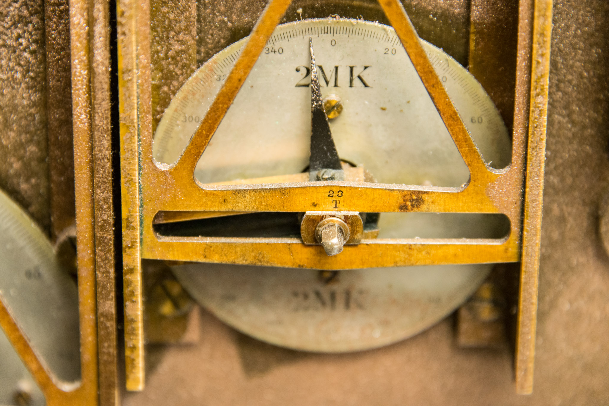 A tide forumula component crank on Tide Predicting Machine No. 2, a special purpose mechanical analog computer for predicting the height and time of high and low tides. The mechanical arrangement (a slotted crank yoke) converts circular motion to a vertical motion that traces a sinusoid. The operator adjusts the position of the pin on the crank to represent a component of the tide formula at a specific coastal port before starting computations. The pin position affects the amplitude and phase of the sinusoid.The U.S. government used Tide Predicting Machine No. 2 from 1910 to 1965 to produce its tide predictions. The machine, also known as “Old Brass Brains,” uses an intricate arrangement of gears, pulleys, chains, slides, and other mechanical components to perform the computations.A person using the machine would require 2-3 days to compute a year’s tides at one location. A person performing the same calculations by hand would require hundreds of days to perform the work. The machine is 10.8 feet (3.3 m) long, 6.2 feet (1.9 m) high, and 2.0 feet (0.61 m) wide and weighs approximately 2,500 pounds (1134 kg). The operator powers the machine with a hand crank.